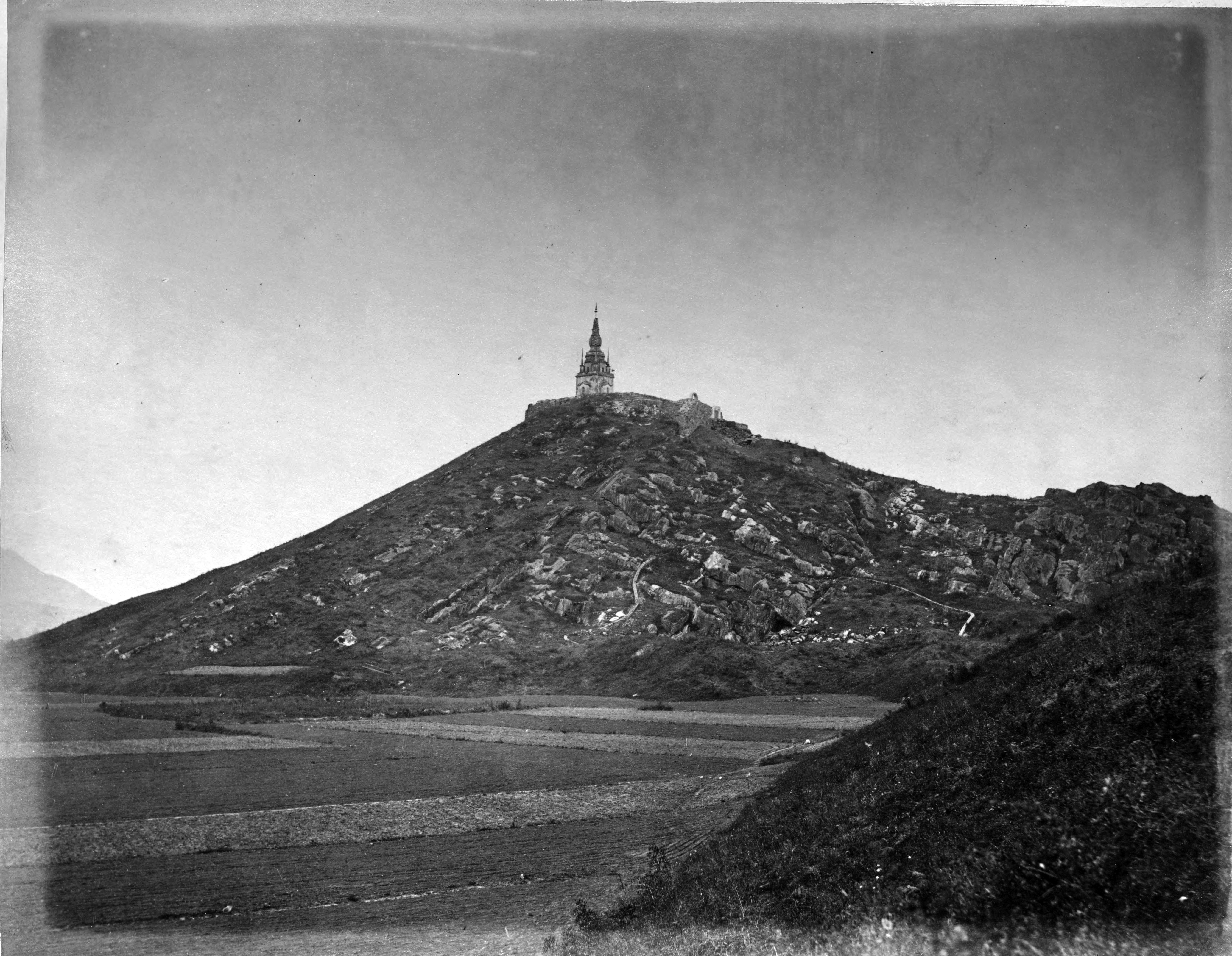 Photograph in Album of photographs of Peking and its environs.